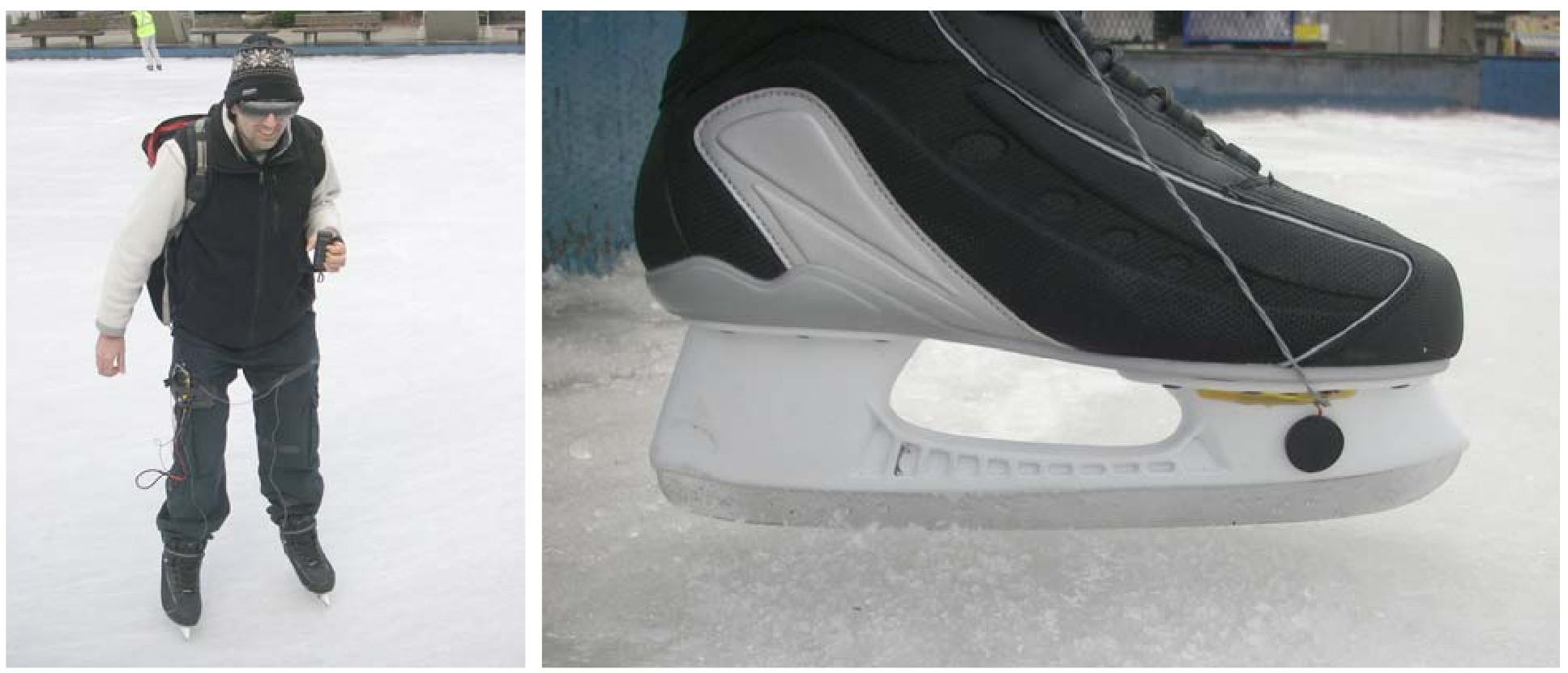 Scratch input using ice skates. This is entirely my own work, a mosaic of 2 images I made from two images I took myself, one a self-portrait, the other a closeup of an ice skate scratch input device I built with a wearable computer I built. As regards copyright I own the rights in the image and hereby post the image for public use on Wikipedia.